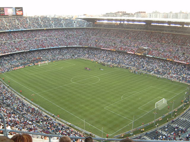 On my solo trip around Barcelona I managed to get a couple of tickets for the local team, much to Freeman and Dewhurst's delight. -Added to the Cream of the Crop pool as .. Most "interesting"